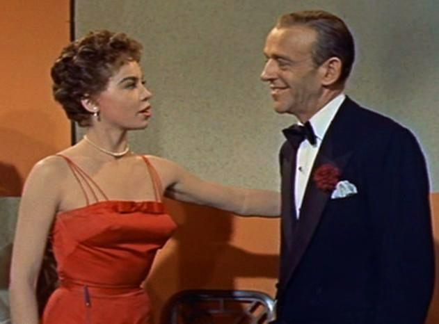 Leslie Caron & Fred Astaire in Daddy Long Legs - trailer (cropped screenshot)